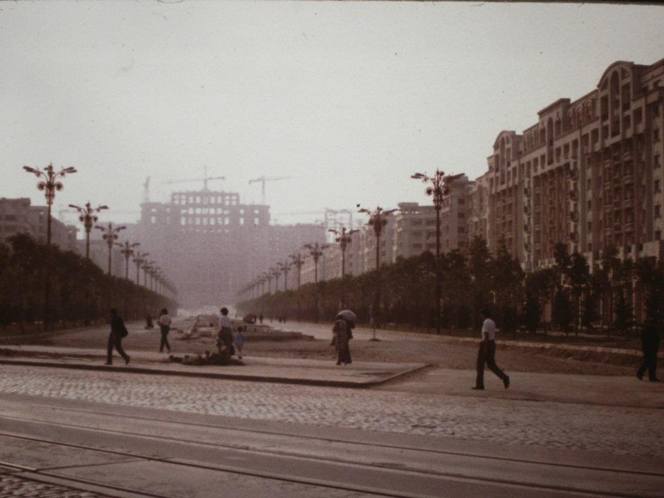 Victory of Socialism Boulevard leading to the new Palace of the Republic